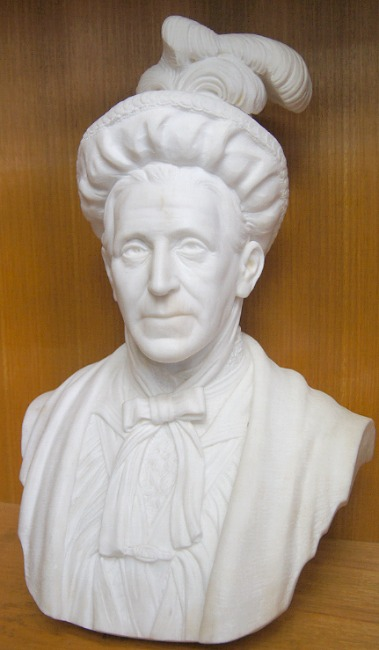 Marble Bust of Emma Miller held at Queensland Council of Unions by sculptor James Laurence Watts